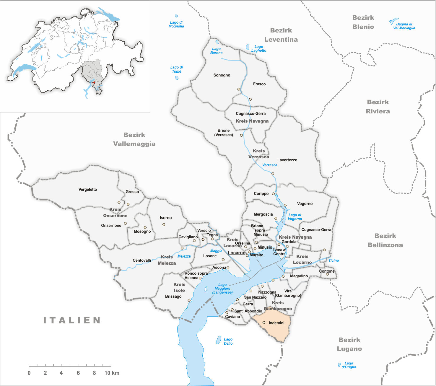 Municipality Indemini Artist: Tschubby